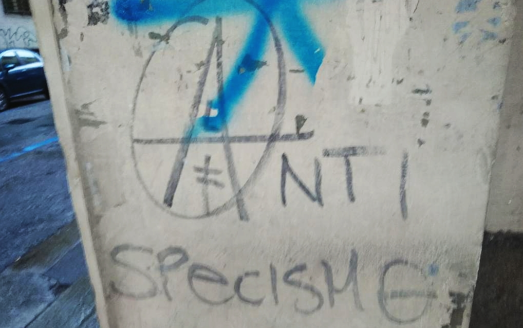 ANTI SPECISMO (Anti-speciesism) - graffiti in Turin, Italy